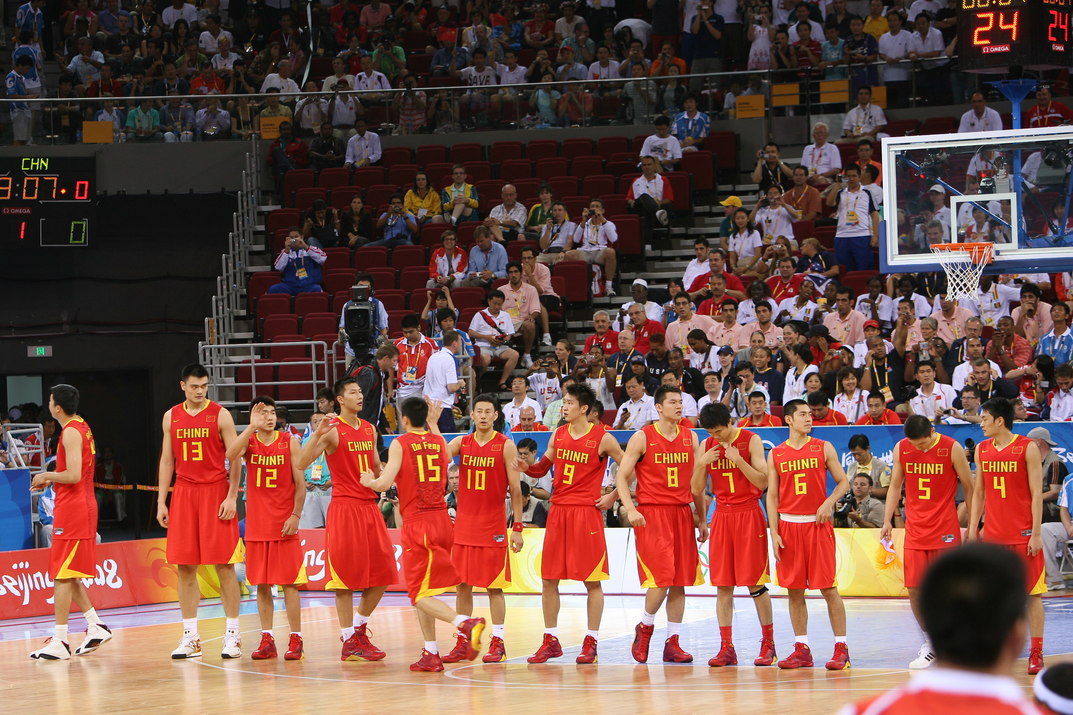 Team China - Men's Basketball - Beijing 2008 Olympics